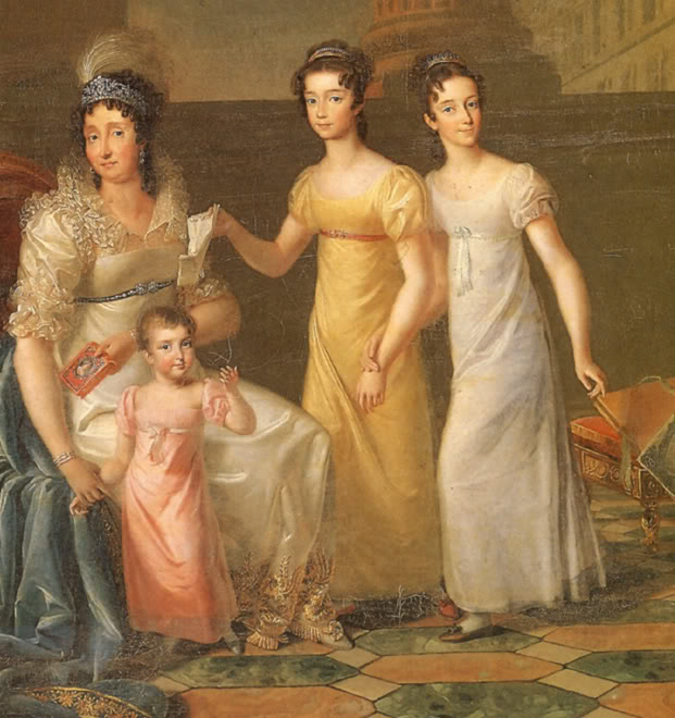 This is a detail from a painting showing the Sardinian royal family